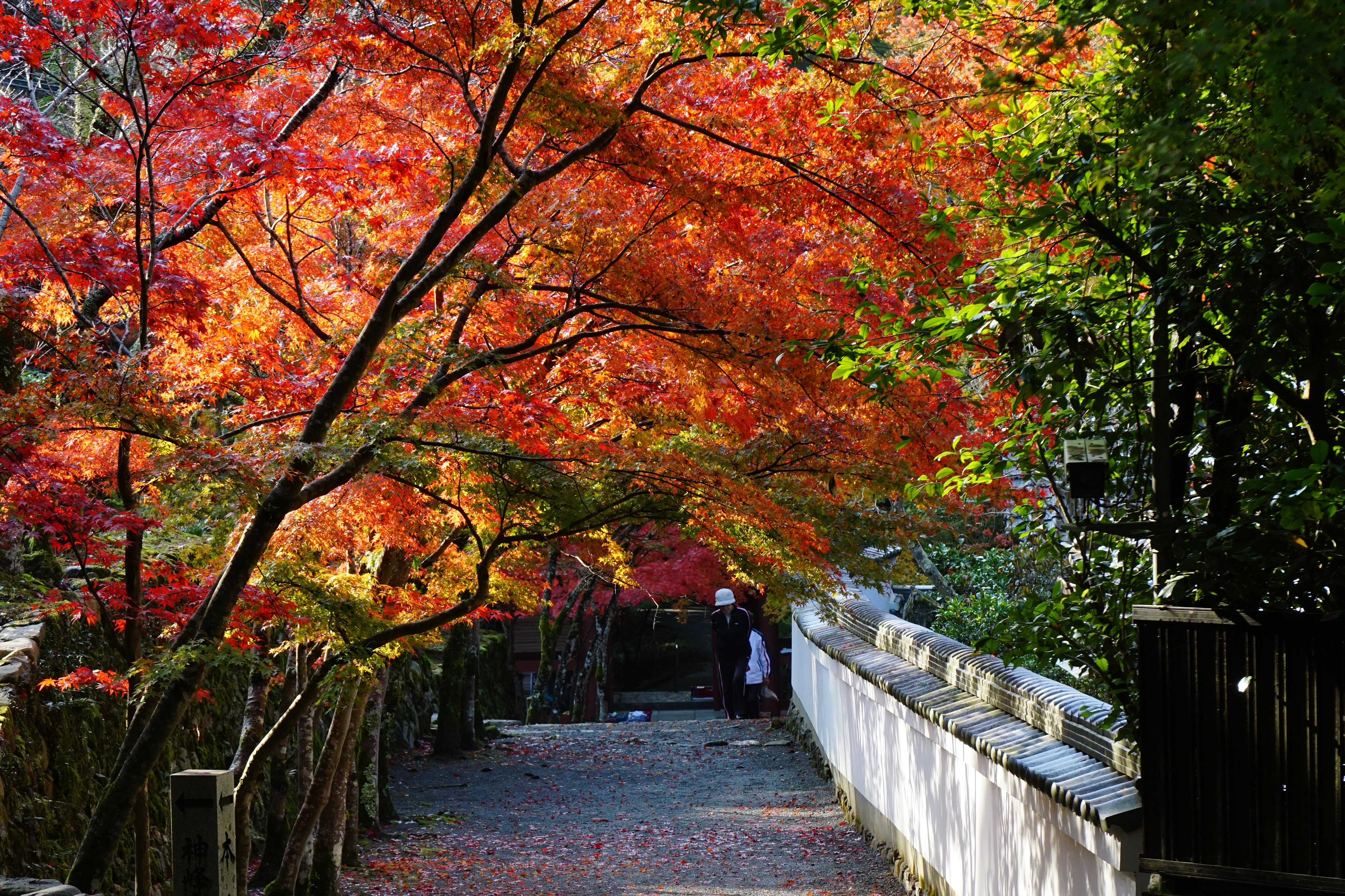 Kabusan-ji in Takatsuki, Osaka Prefecture, Japan